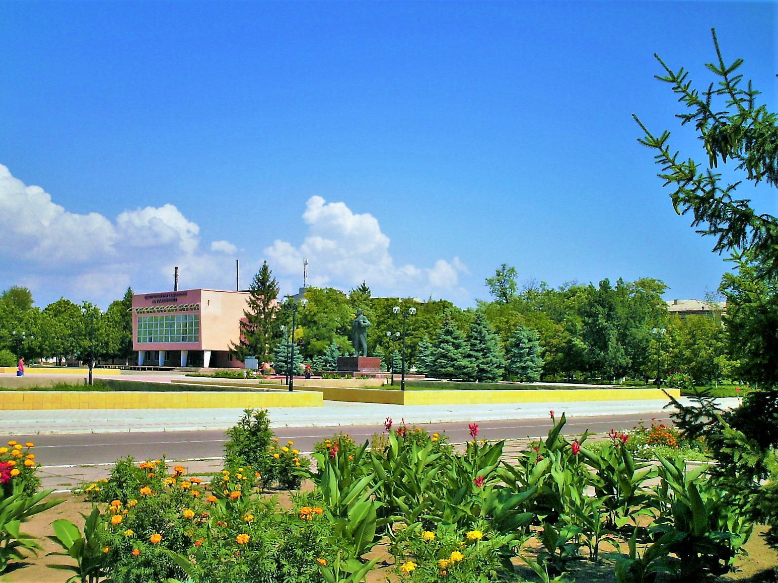 Central Square of Oleshky